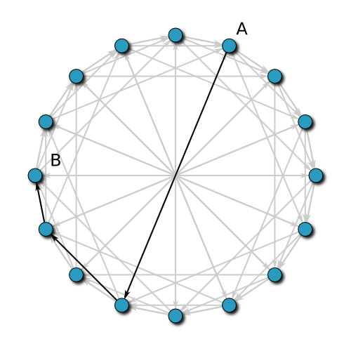 A diagram showing the routing path a message takes in a 16-node Chord network as it travels from Node A to Node B. Chord is designed in such a way that at worst, each "jump" the message takes cuts the remaining distance in half.